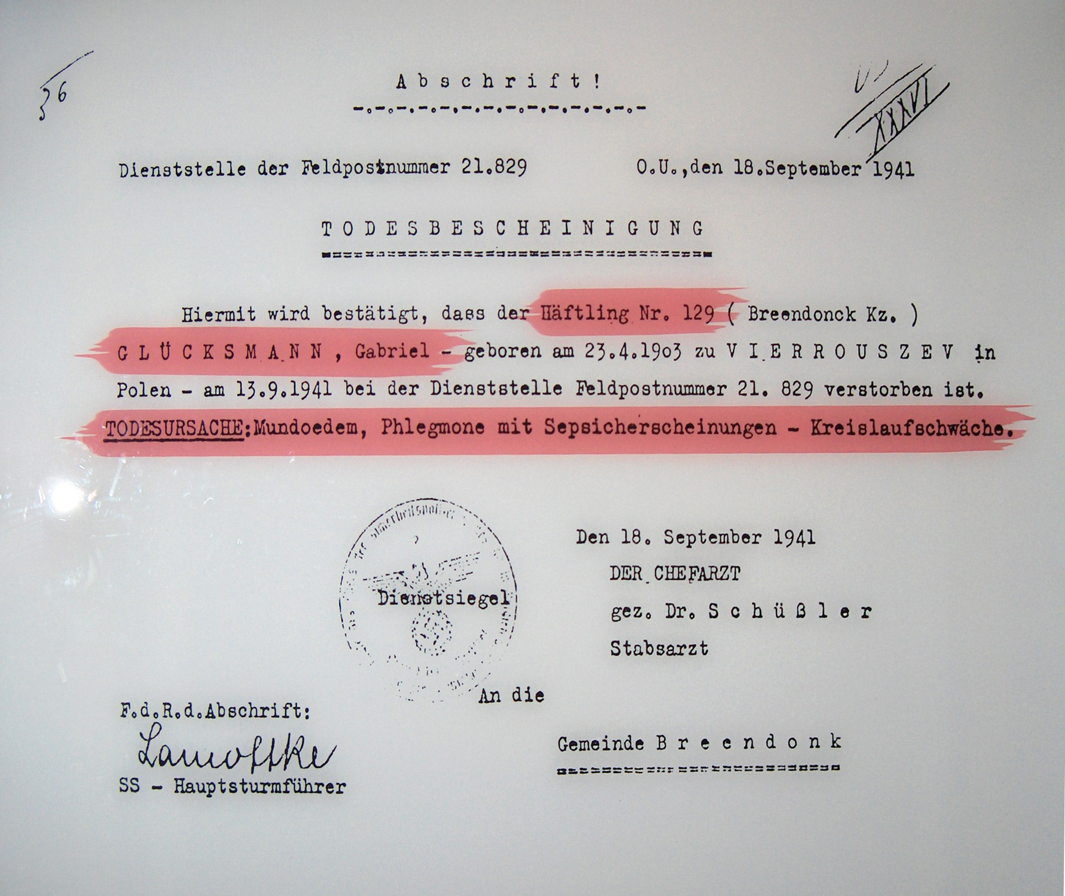 Death certificate falsely claiming death by illness; Fort van Breendonk, Belgium